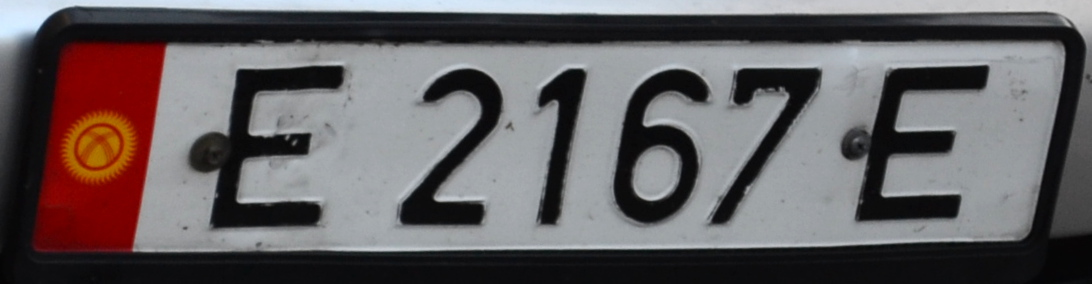 Kyrgyzstan registration plate